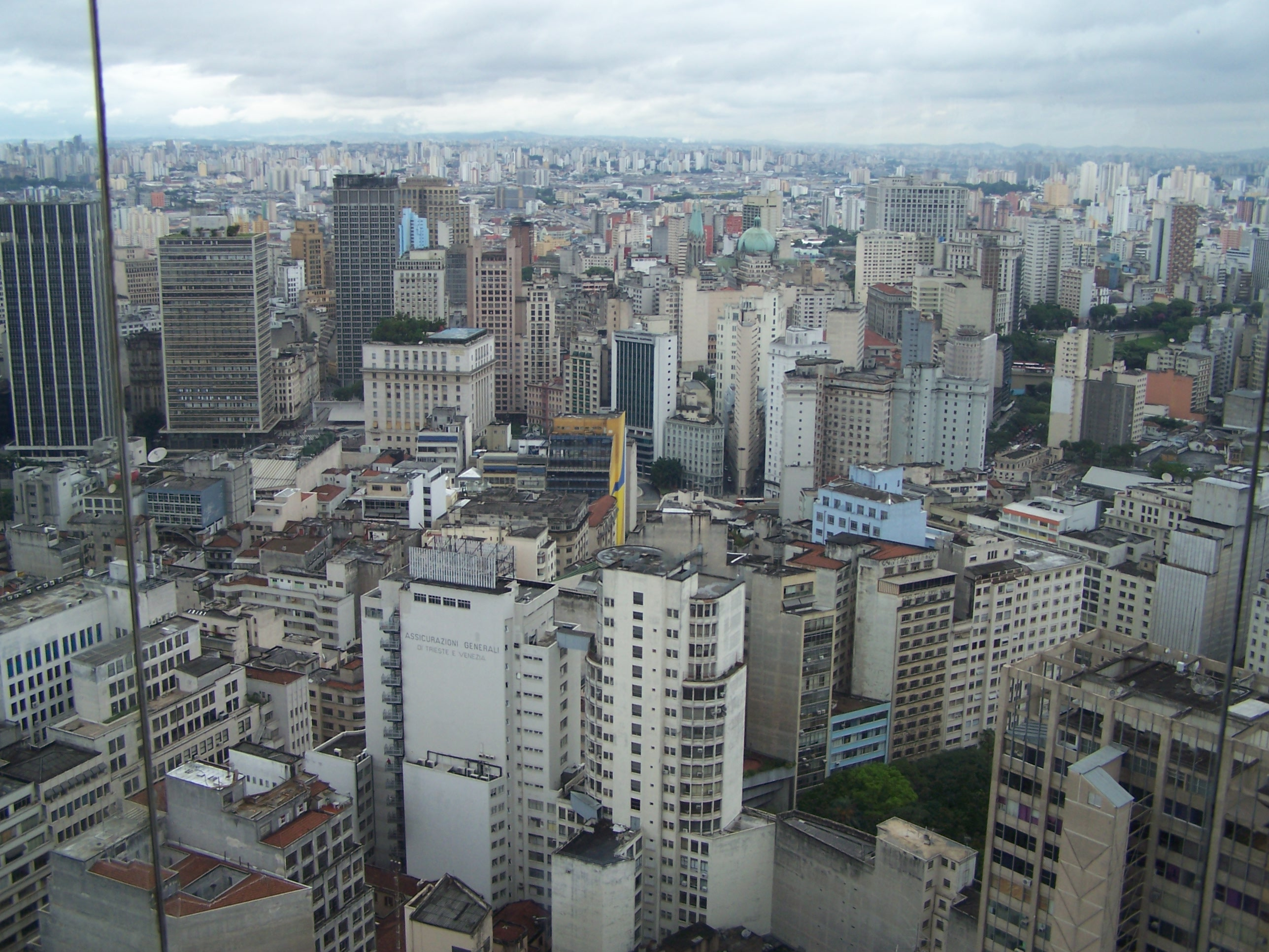 View from Edifício Itália